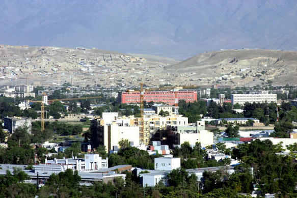 A view of the Wazir Akbar Khan neighborhood in Kabul, the capital of Afghanistan.